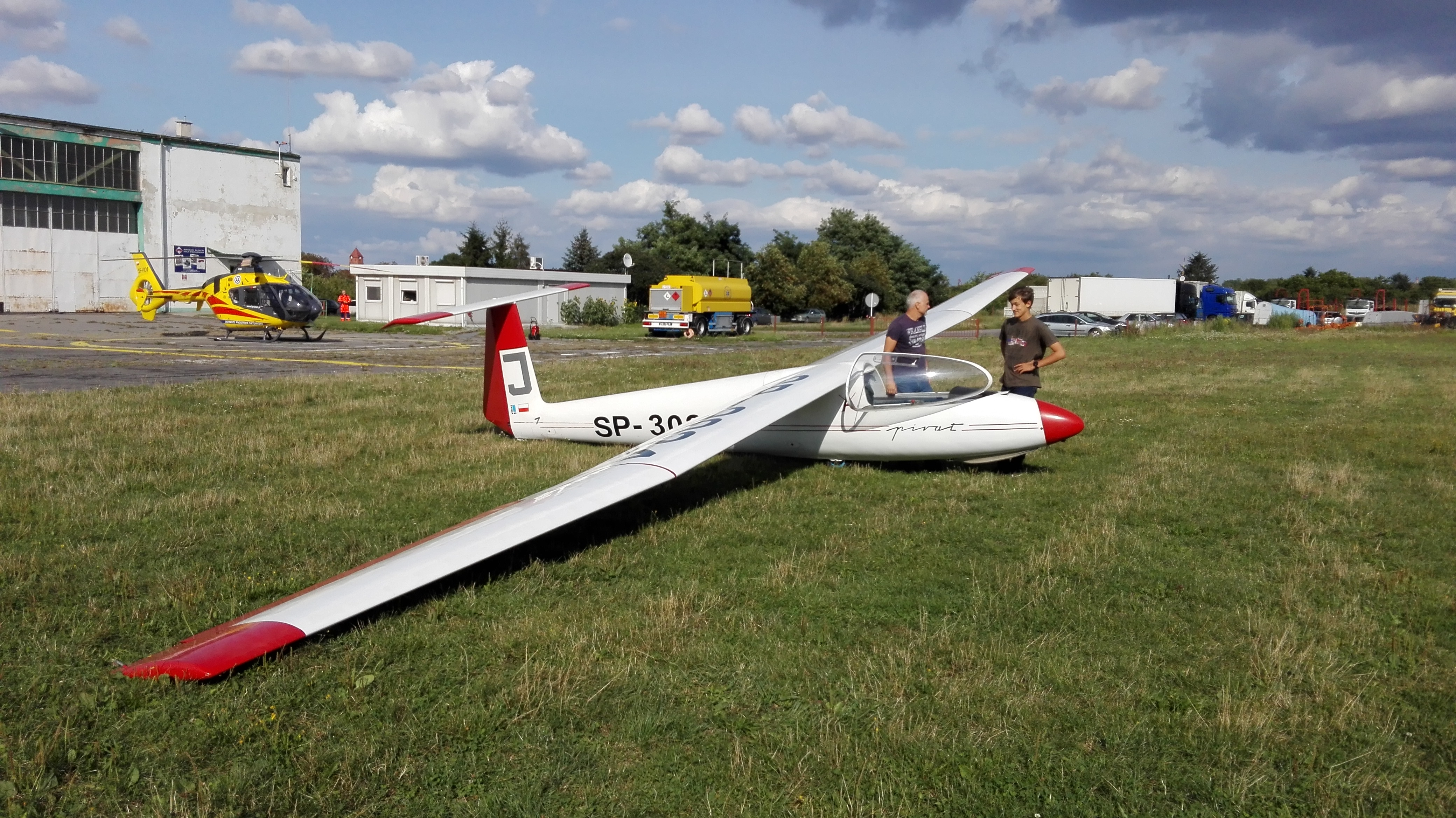 SZD-30 Pirat SP-3024(J)